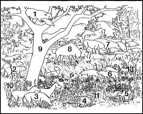 John Day Paleobiome. Turtle cove localities. This is the key for the following image: Sabre-toothed "tiger" Pogonodon Oreodont Eporeodon Three-toed "horse" Miohippus Tortoise Stylemys Mouse-deer Hypertragulus "Dog" Mesocyon Oreodont Promerycocherus "Rhinoceros" Diceratherium Chestnut oak Quercus Hawthoren Crataegus Fern Polypodium Hackberry Celtis "Maple" Acer